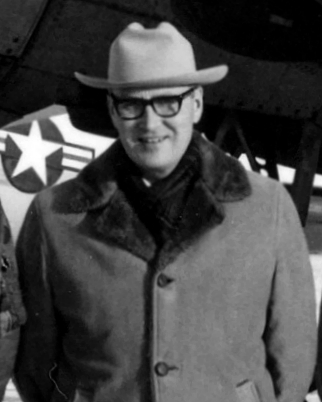 The North Dakota Governor William L. Guy at Hector Field, Fargo, North Dakota, in 1968.